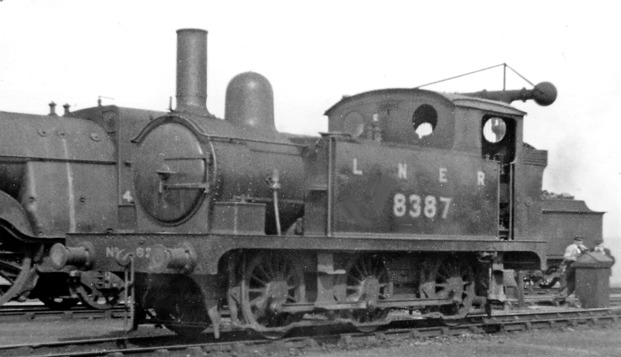 Small ex-GE 0-6-0T at March Locomotive Depot Probably used for shunting locomotives around the Depot, No. 8387 was an ex-GER Holden class T18 (LNER class J66) 0-6-0T built 12/1888 as No. 323, becoming LNER No. 7323 (No. 8387 in 1946) and was withdrawn 2/51 - before even getting into the 6XXXX series.